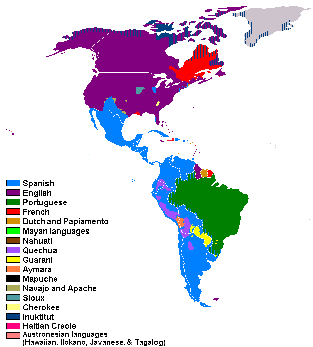 Languages of the Americas